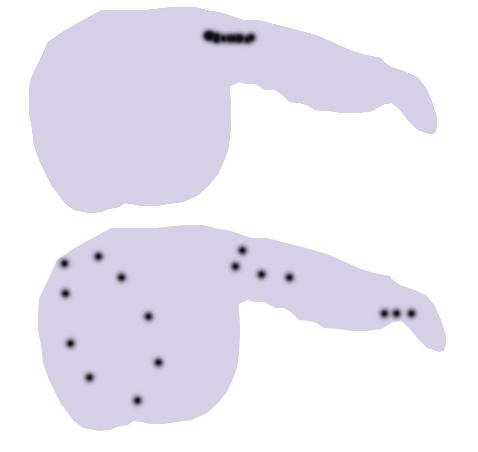 experiment by Gilmour, D. Knaut in Max-Planck Institut, Tübingen. His Group has created a Mutante names "Odysseus", in which the gonadcells can not find their way to the gonad, and they are lost all over the fish body. The picture here is a shema drawed by myself.